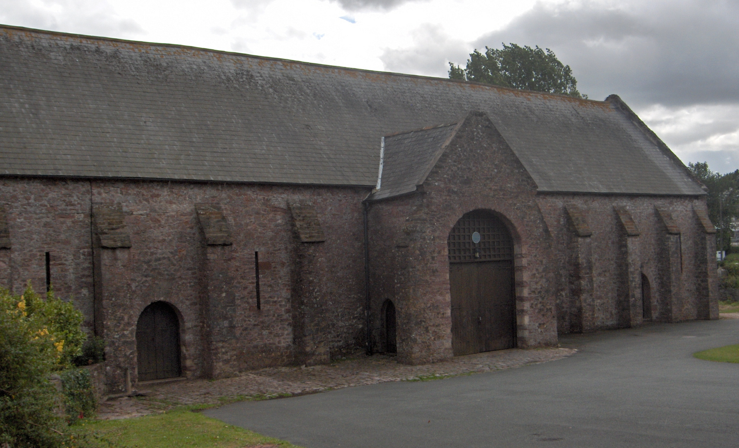 The Spanish Barn in Torquay. Taken on en:25 August en:2005 using an HP Photosmart R707 at 5.1 megapixels. See also: The Spanish Barn plaque, Torquay.jpg